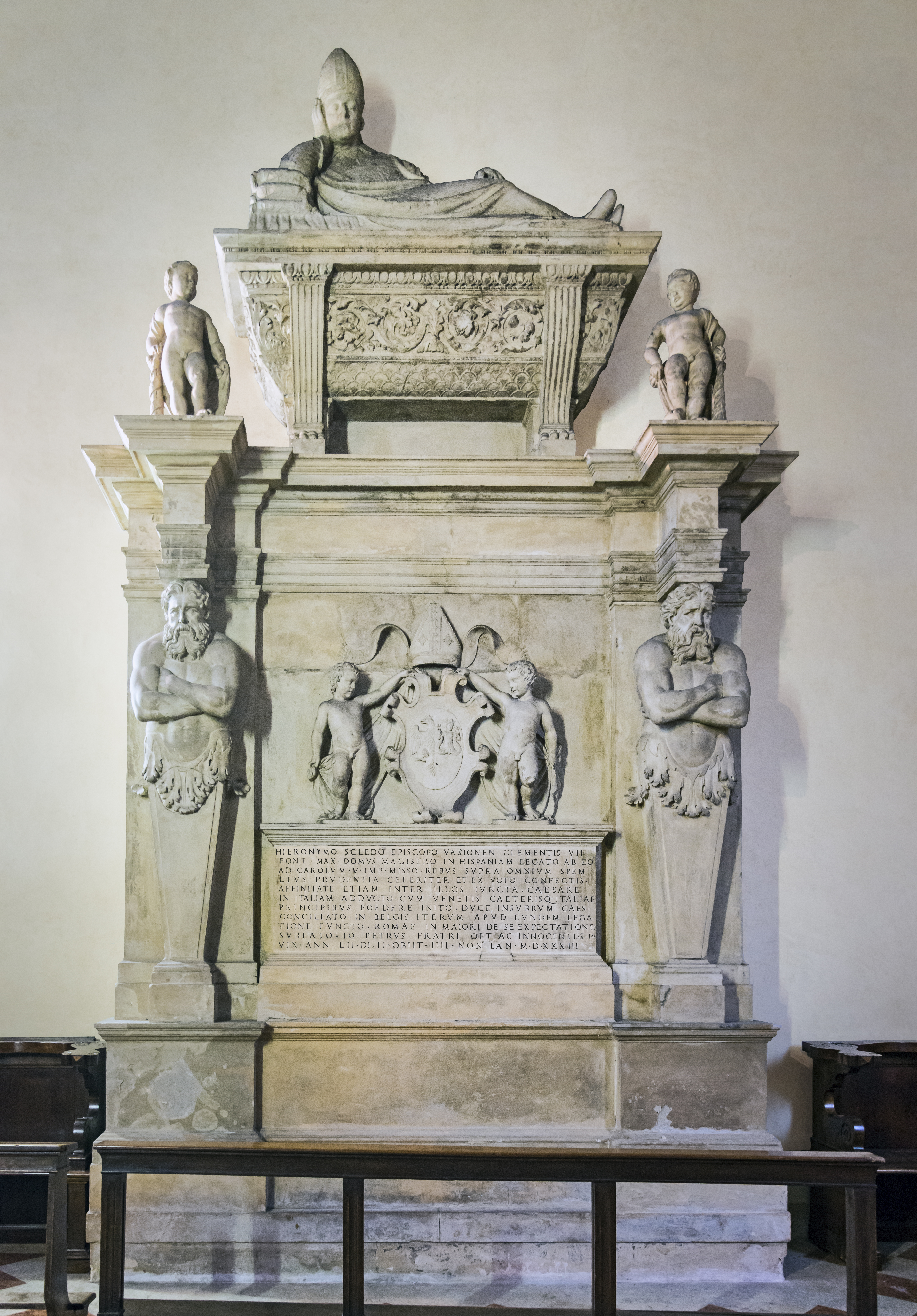 The interior of the Vicenza Cathedral - Fifth chapel on the left, left wall - Monument to Girolamo Bencucci